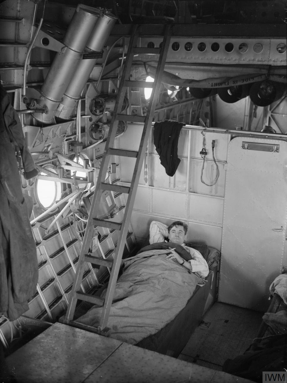 Royal Air Force Coastal Command, 1939-1945. Sergeant Patrick McCombie, a flight engineer of the Royal Australian Air Force, in his bunk on board a Short Sunderland of No. 10 Squadron RAAF at Mount Batten, Plymouth, Devon.